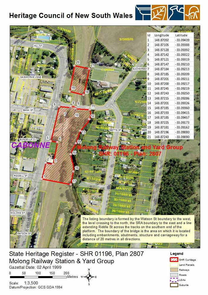 Molong railway station: SHR Plan No 2807